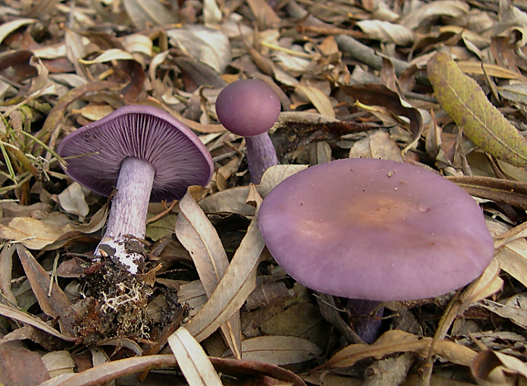 Lepista nuda by Archenzo, Italy 2004